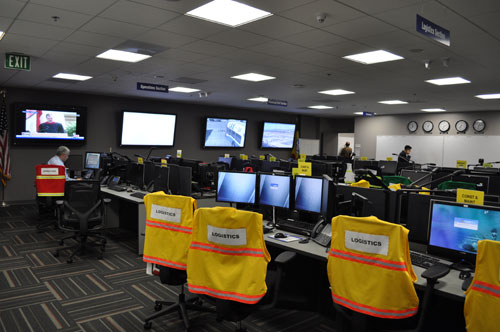 While at LAX, Chairman Hersman and the NTSB staff toured the Airport Response Coordination Center (ARCC), which is the airport’s nerve center for incident and emergency response.